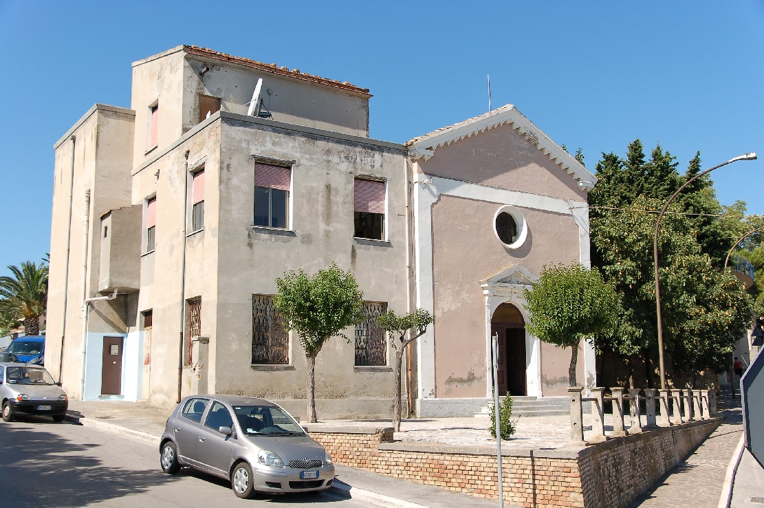 Vasto 2011